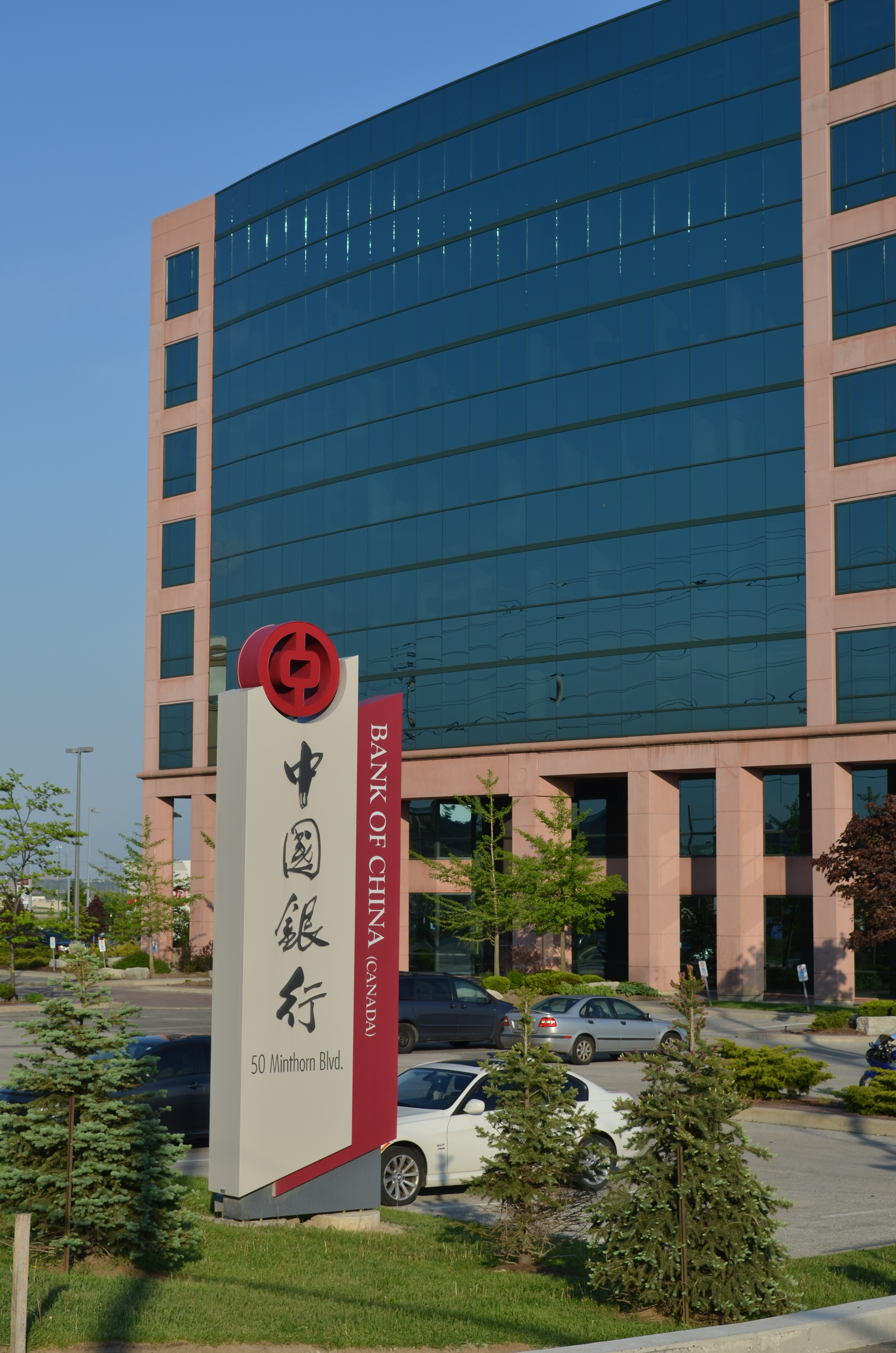 Bank of China, Markham